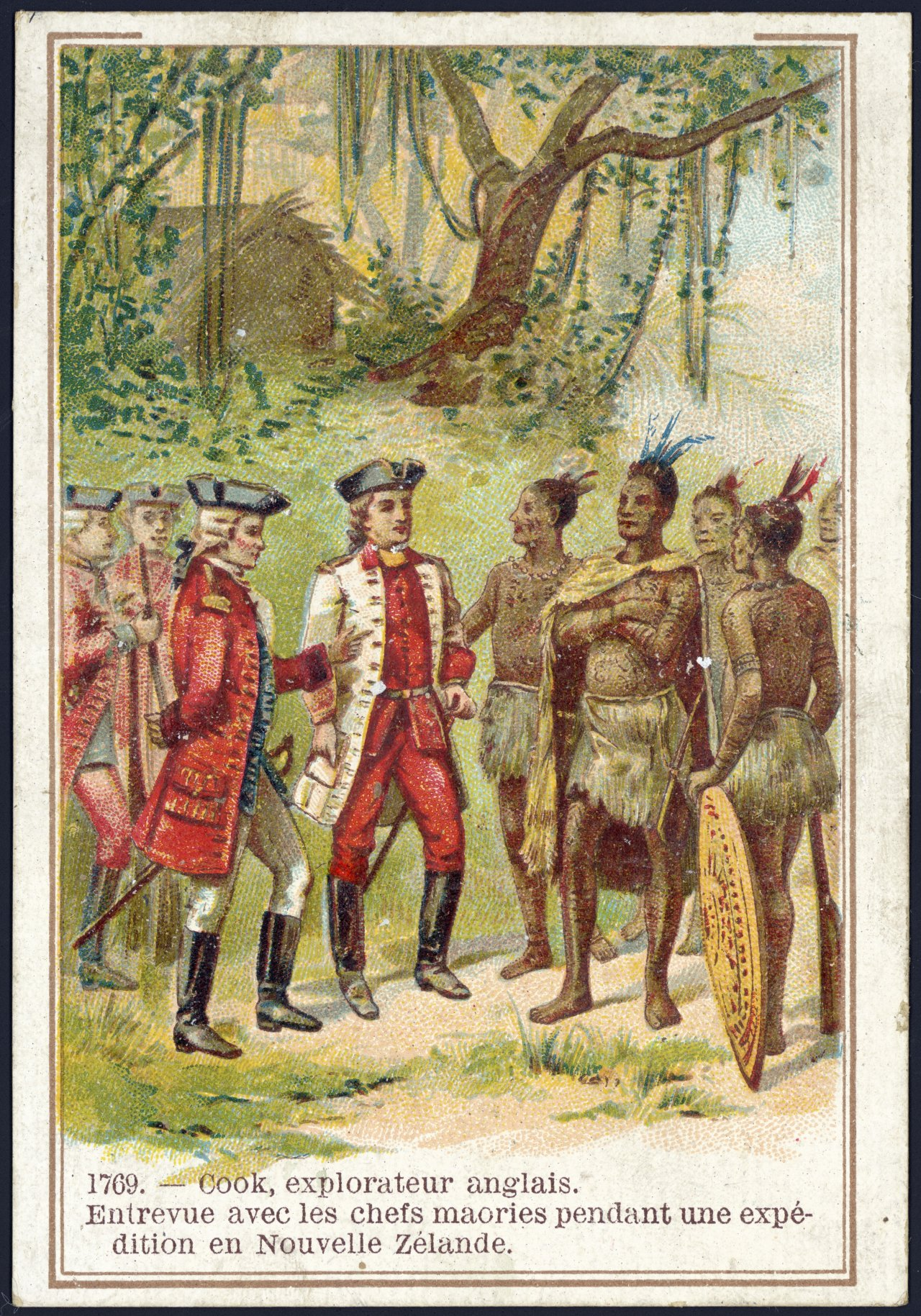 Chromolithographic French advertising card for a Lille chicory manufacturer shows explorer Captain James Cook with a group of Maori. The verso of the card has text in French pertaining to the merits of chicory added to coffee and milk, and an image of a pretty gardener. The words on the verso read: “Lovers of true pure chicory, which give a delicious taste to coffee and to milk, must proclaim everywhere the Extra Chicory Pretty Gardener brand. Three gold medals, and five honour diplomas at various exhibitions”. C. Beriot (Lille) :Chicoree extra; marque a la belle jardiniere. 1769 - Cook, explorateur anglais. Entrevue avec les Chefs Maories pendant une expedition en Nouvelle Zelande. Imp. A Norgeu, Paris [ca 1900?]